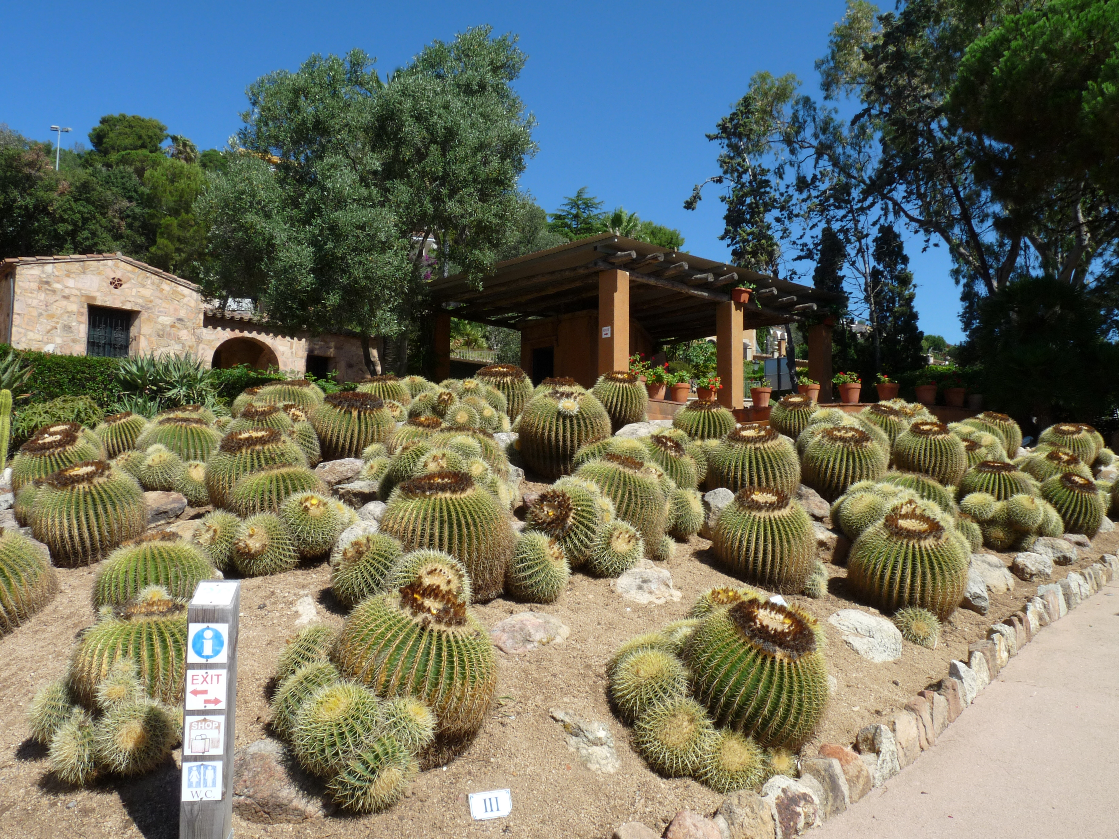 Botanical garden of Pinya de Rosa in the municipality of Blanes, Catalonia, Spain.